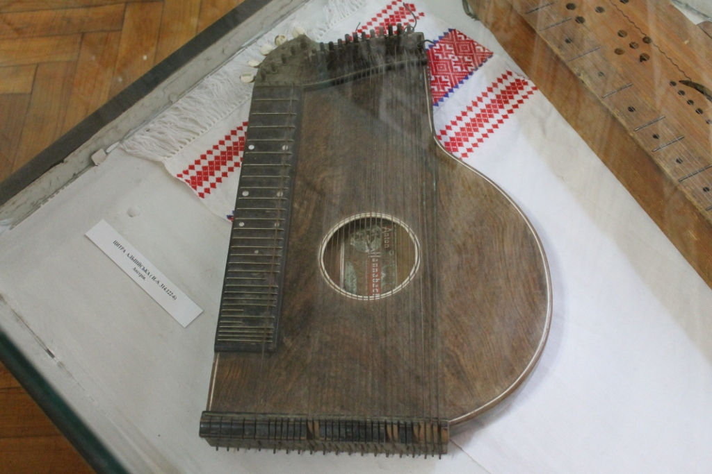 Tsytra (zither ?), Museum of Folk Musical Instruments in Uzhgorod